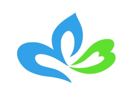 Flag of Yamagata Gifu